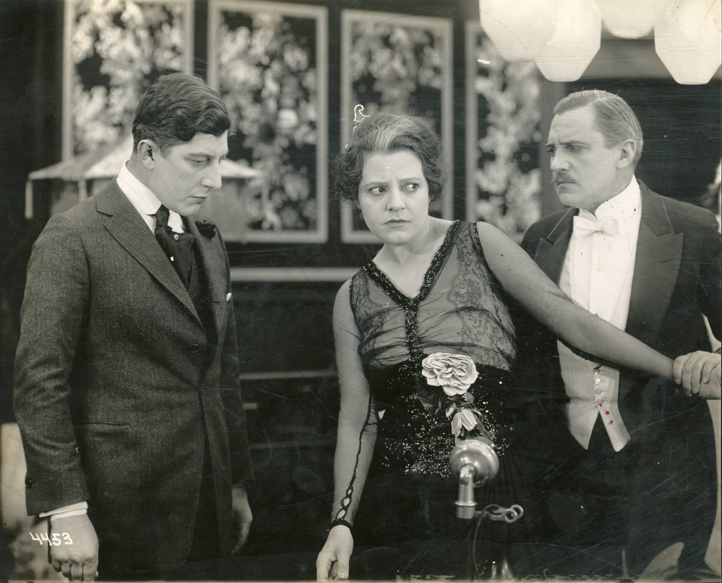 A scene from the American drama film On Trial (1917) [correction to title], which opened Aug. 5, 1917, at the Liberty Theater, Seattle. Includes Patrick Calhoun, Corene Uzzell, and James Young. Subjects: motion pictures, actors, actresses, actors